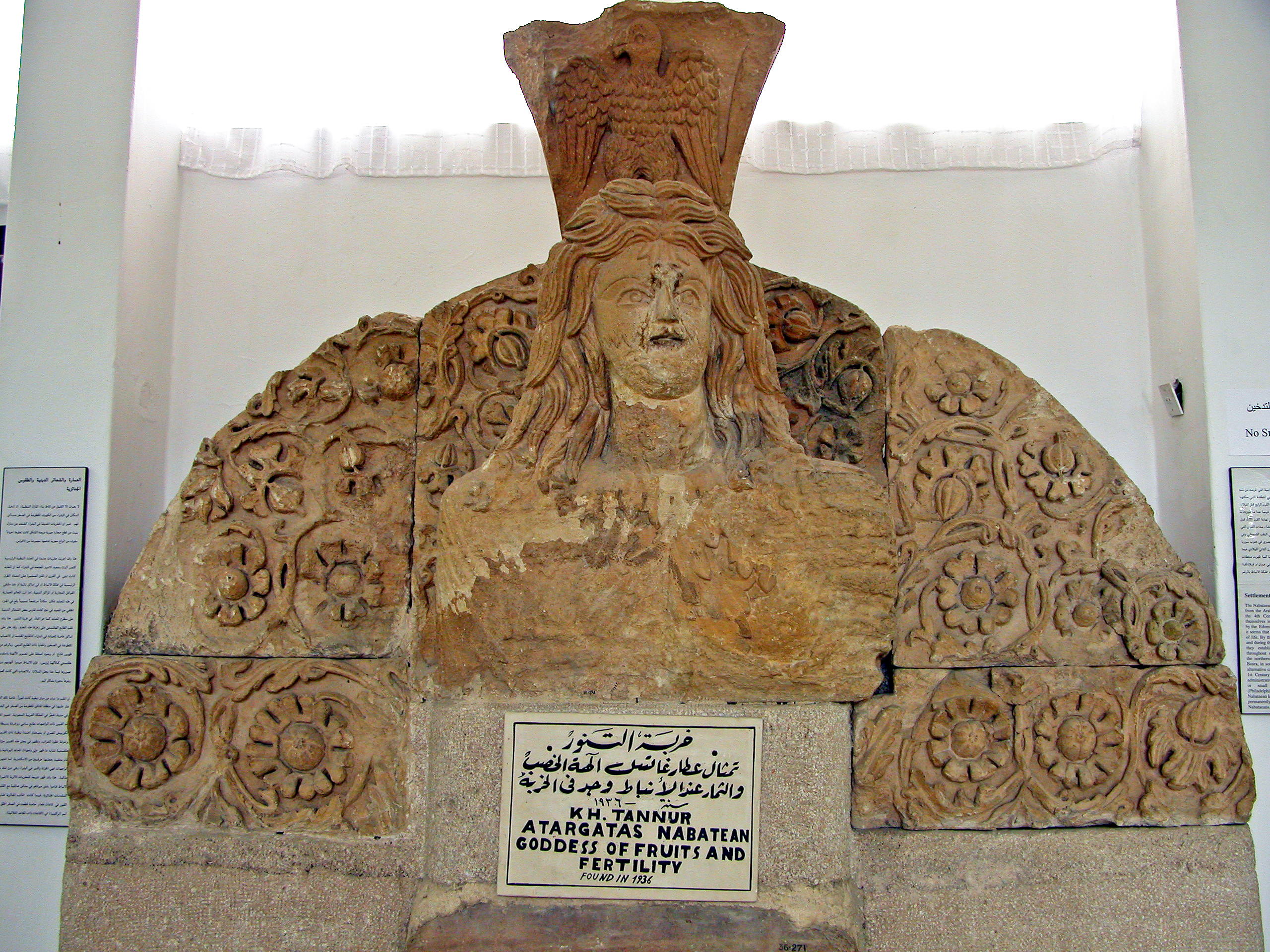 This statue comes from the Nabatean temple at Khirbet Tannur. Atargatis, the "Syrian Goddess" (Lucian, De Syria Dea) was a vegetation goddess, responsible for the fertility of the land, and perhaps the sea as well; her dolphin is a puzzling attribute, which appears on other representations, although not on this one. Here, the goddess emerges from a profusion of vines, fruits, and other vegetation. Her head is crowned by an eagle, symbol of the Edomite god, Qos (Taylor, p. 122).[1]